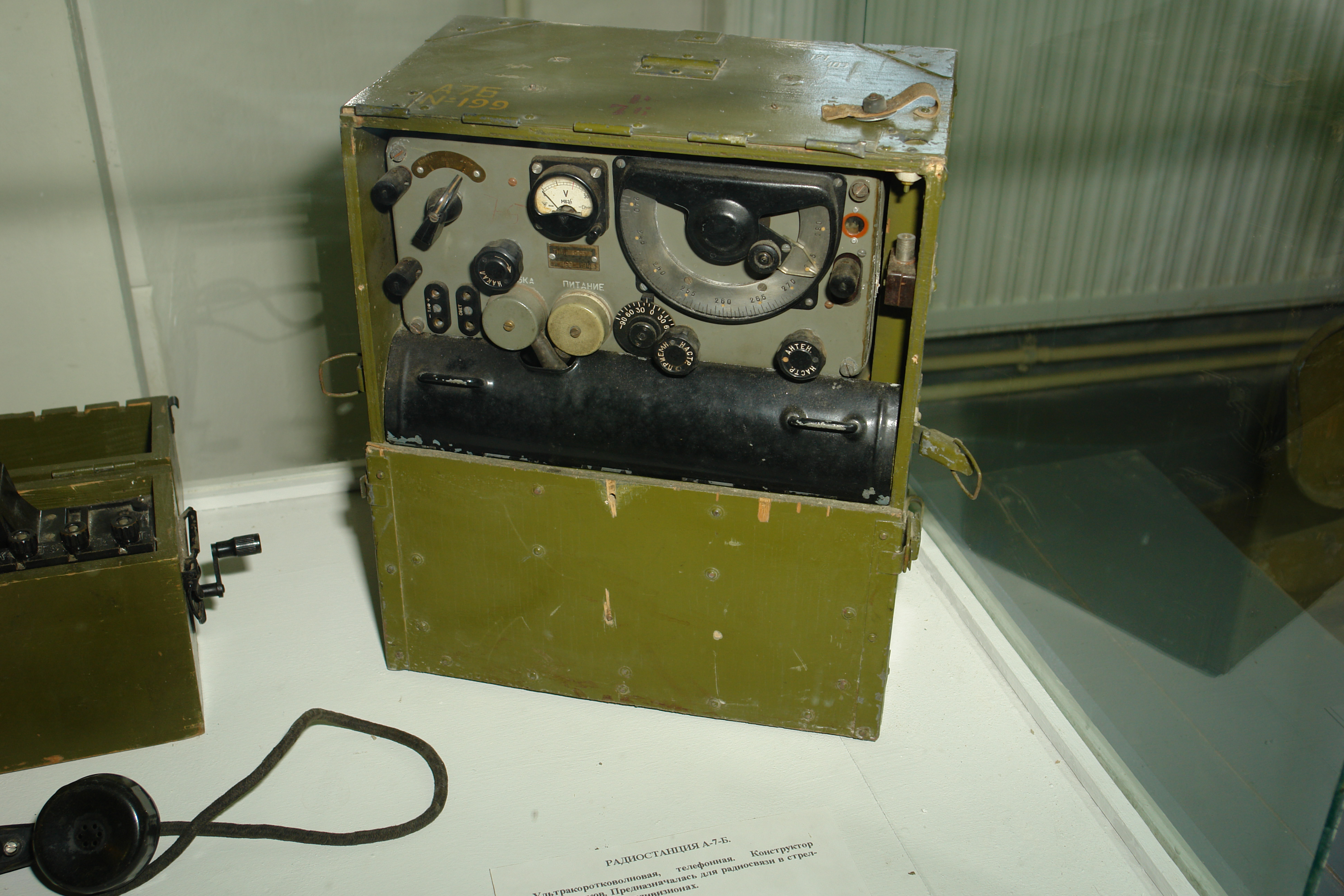 A-7-B transceiver from 1944. VHF FM telephony. Designer G. T. Shitikov. It was intended for radio communication in rifle regiments and artillery battalions. Frequency range: 24-28 MHz. Transmitter power: 1.5-2.0 W. Range of up to 12 km. Power supplies: two 2NKN-10 accu (filament) and two BAS-80 batteries (plates). Mass: 23 kg. Military History Museum of Artillery, Engineers and Signal Corps, Saint Petersburg.